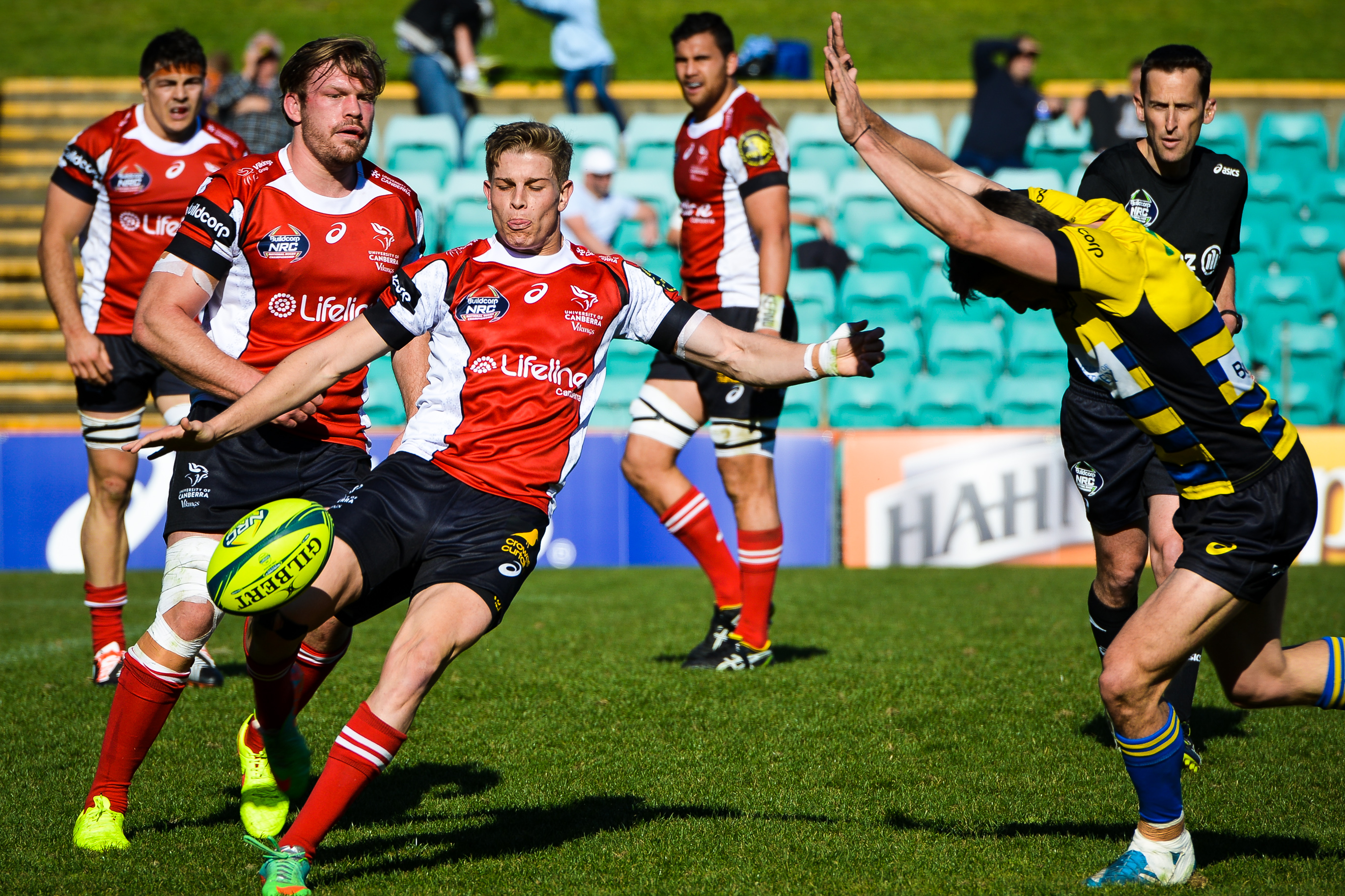 Sydney Stars versus Canberra Vikings NRC Round 5